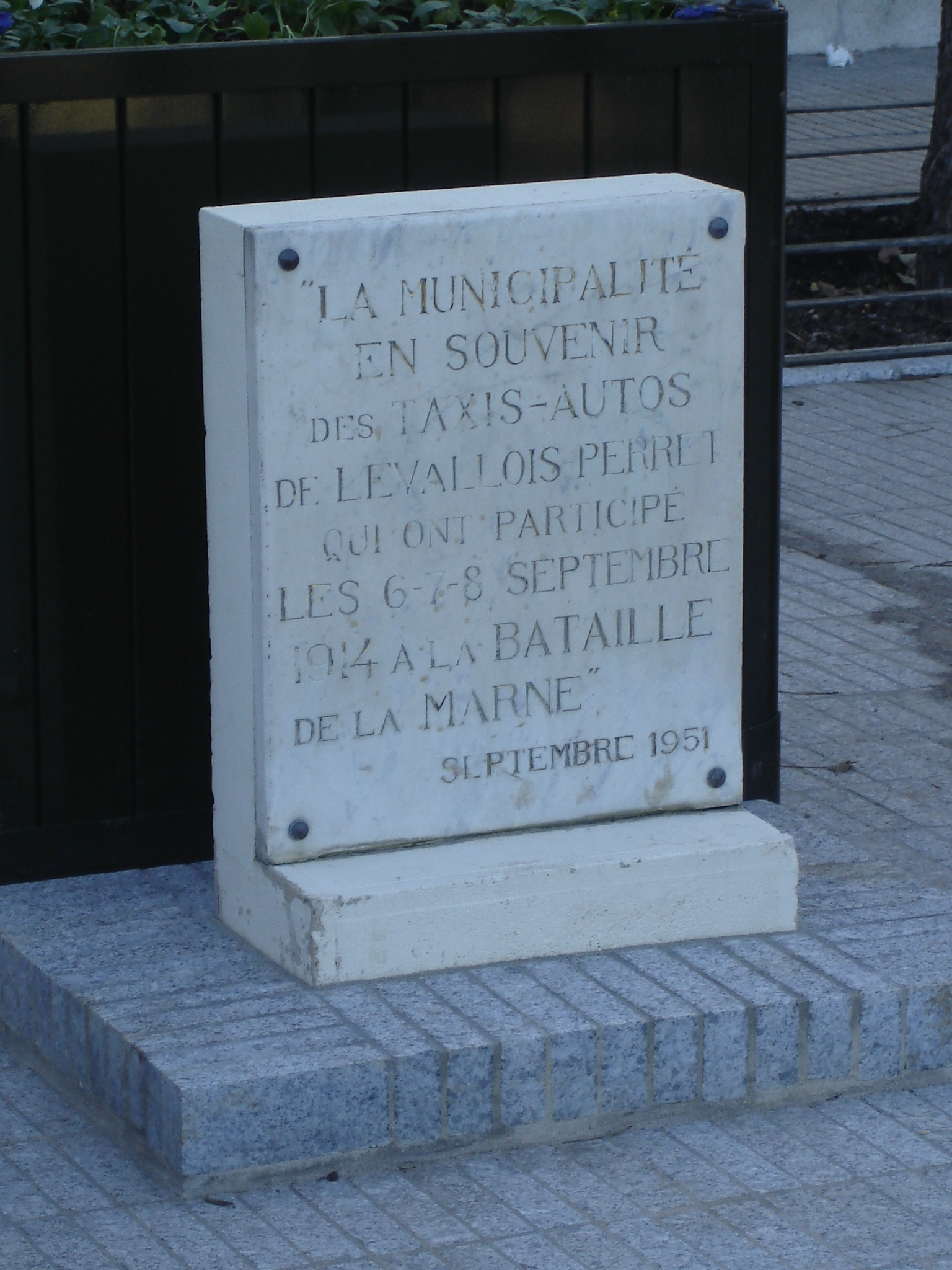 Stele Commemorating the taxis requisitionned for the Battle located place du 11 novembre/rue Baudin in Levallois-perret, suburb of Paris